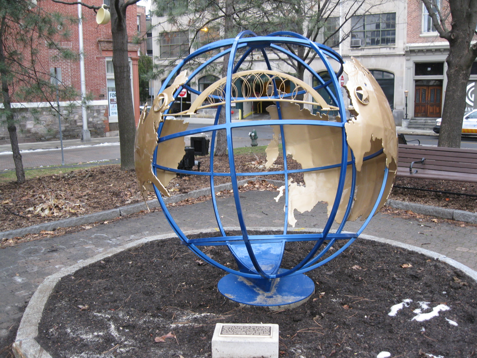 Sculpture entitled "Albany-Tula, Russia", in Tricentennial Park, Albany, NY, USA.